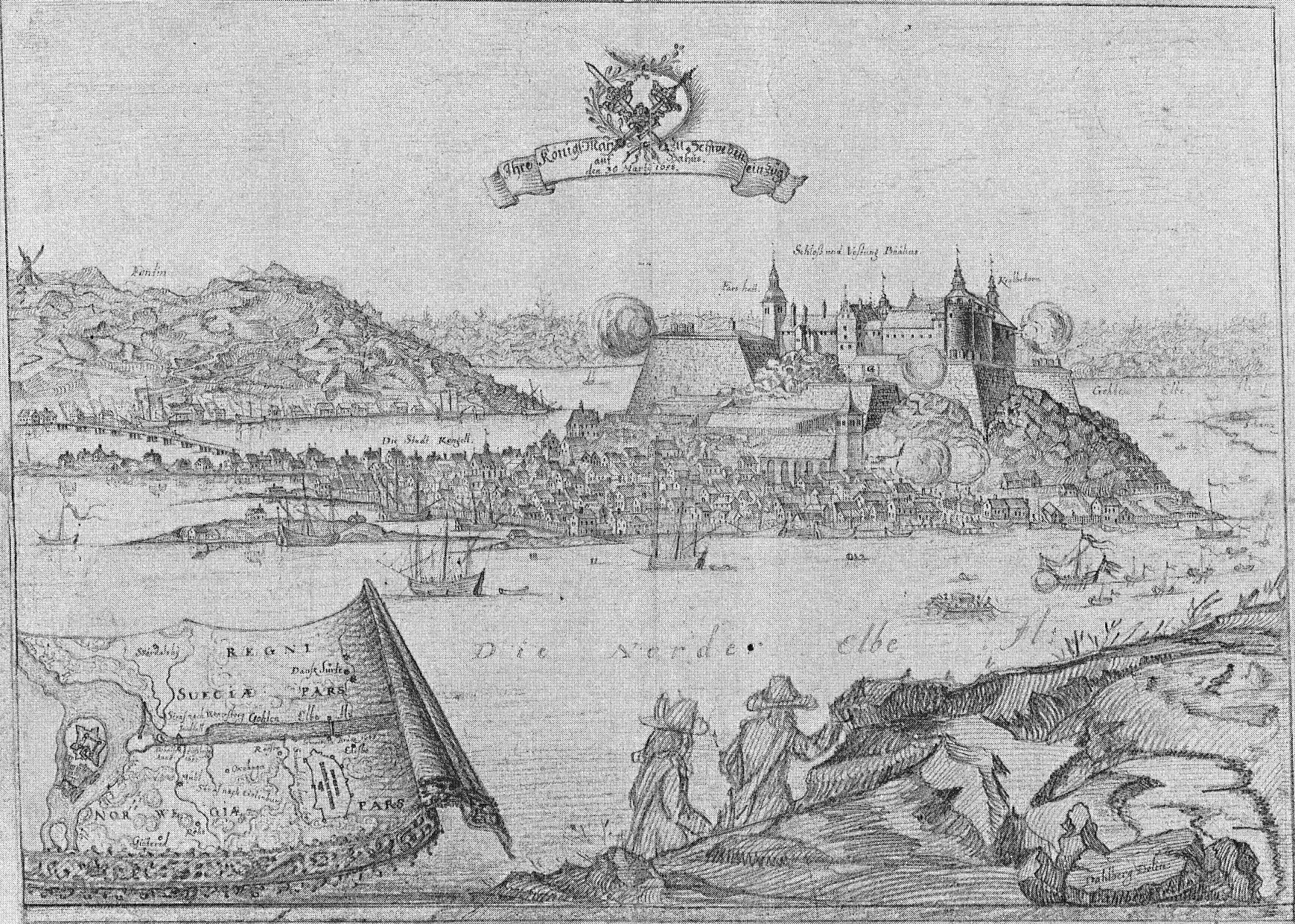 The Swedish king Charles X Gustav visits the fortress Bohus and town Kungälv, just taken over from Norway-Denmark, at 30 Mars 1658. Drawing by the Swedish field marshal Erik Dahlberg.